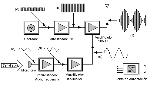 Block diagram of a radio-transmitter